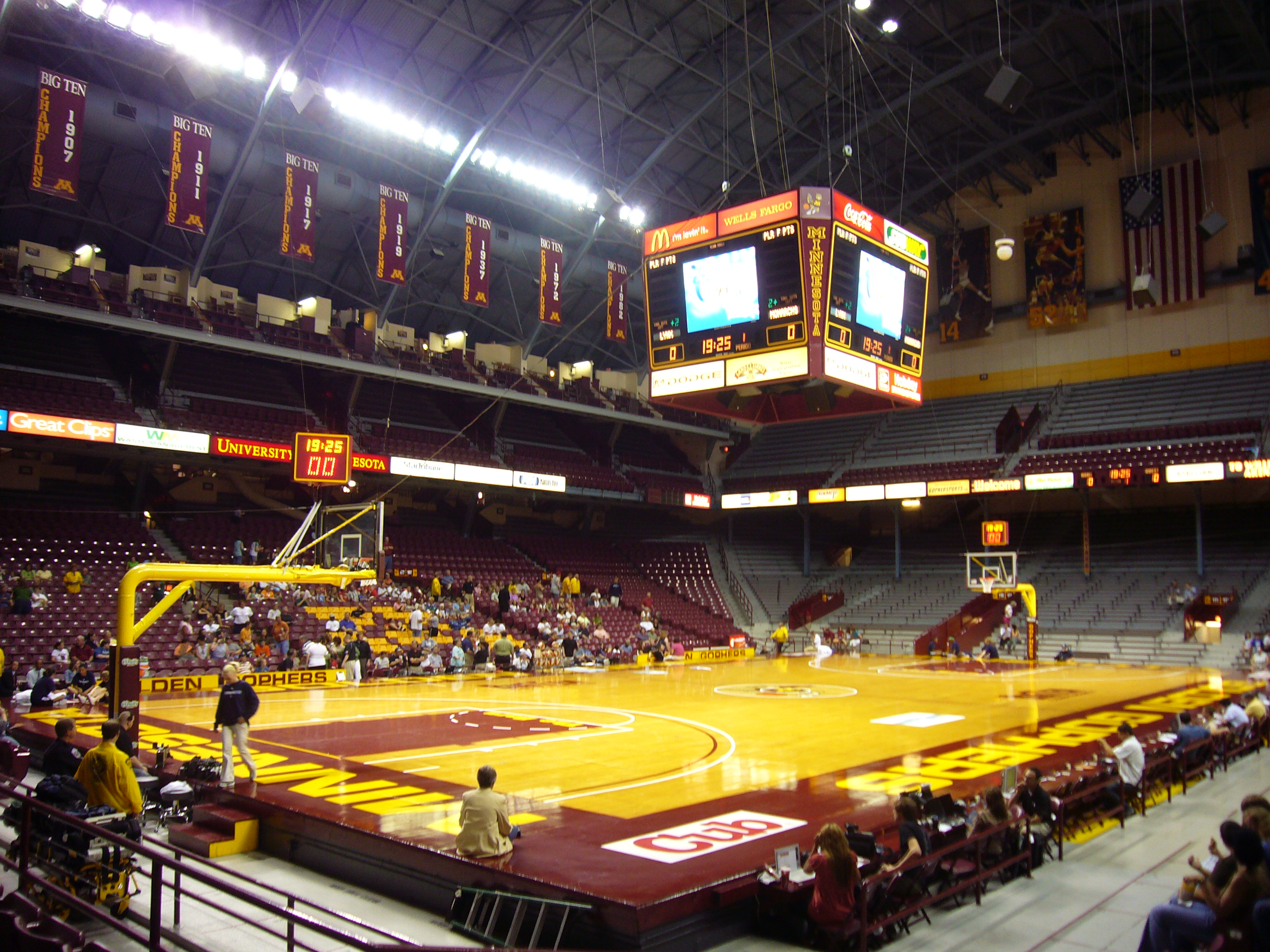 Created by user and released into the public domain.